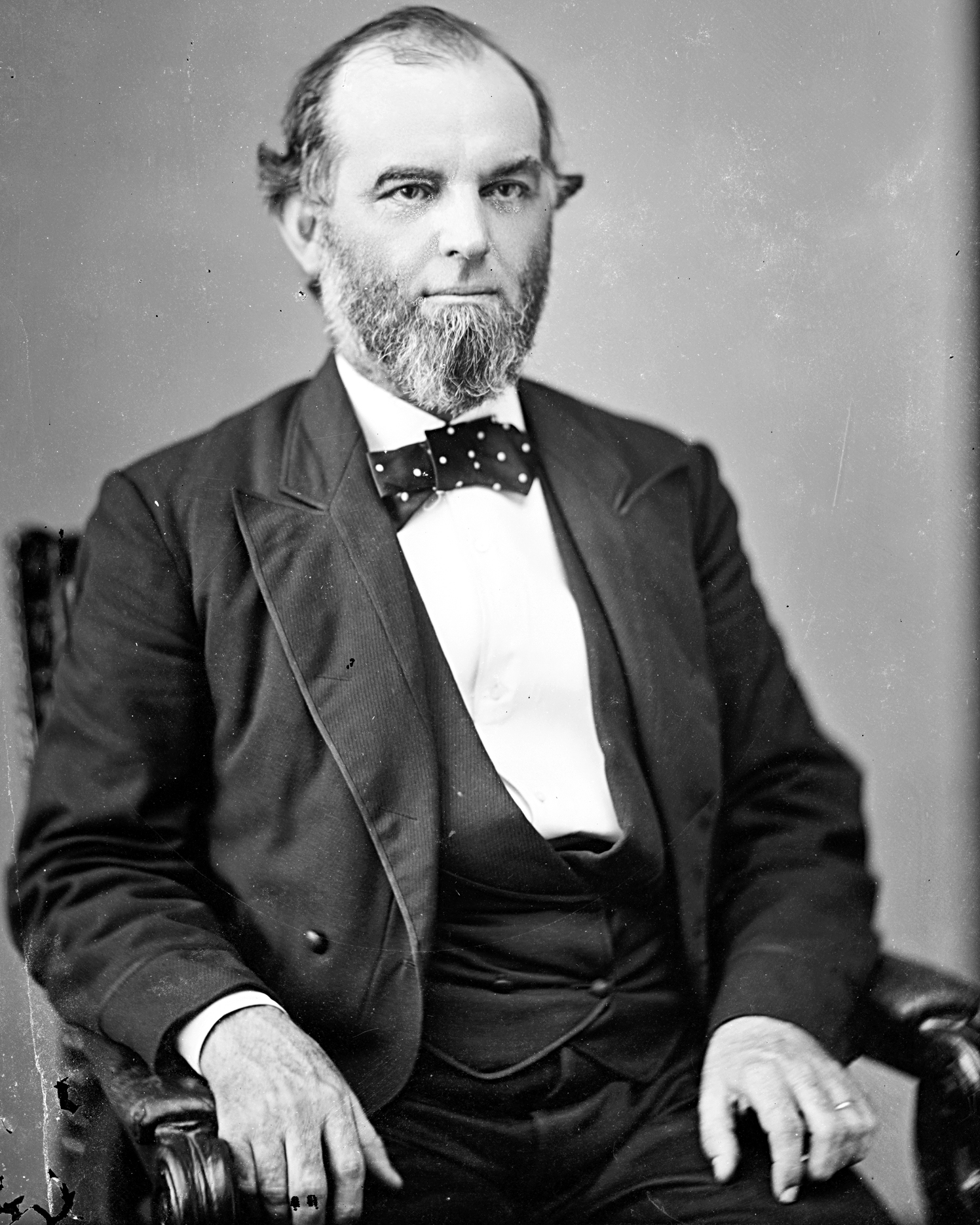 James Francis Miller, US Representative from Texas